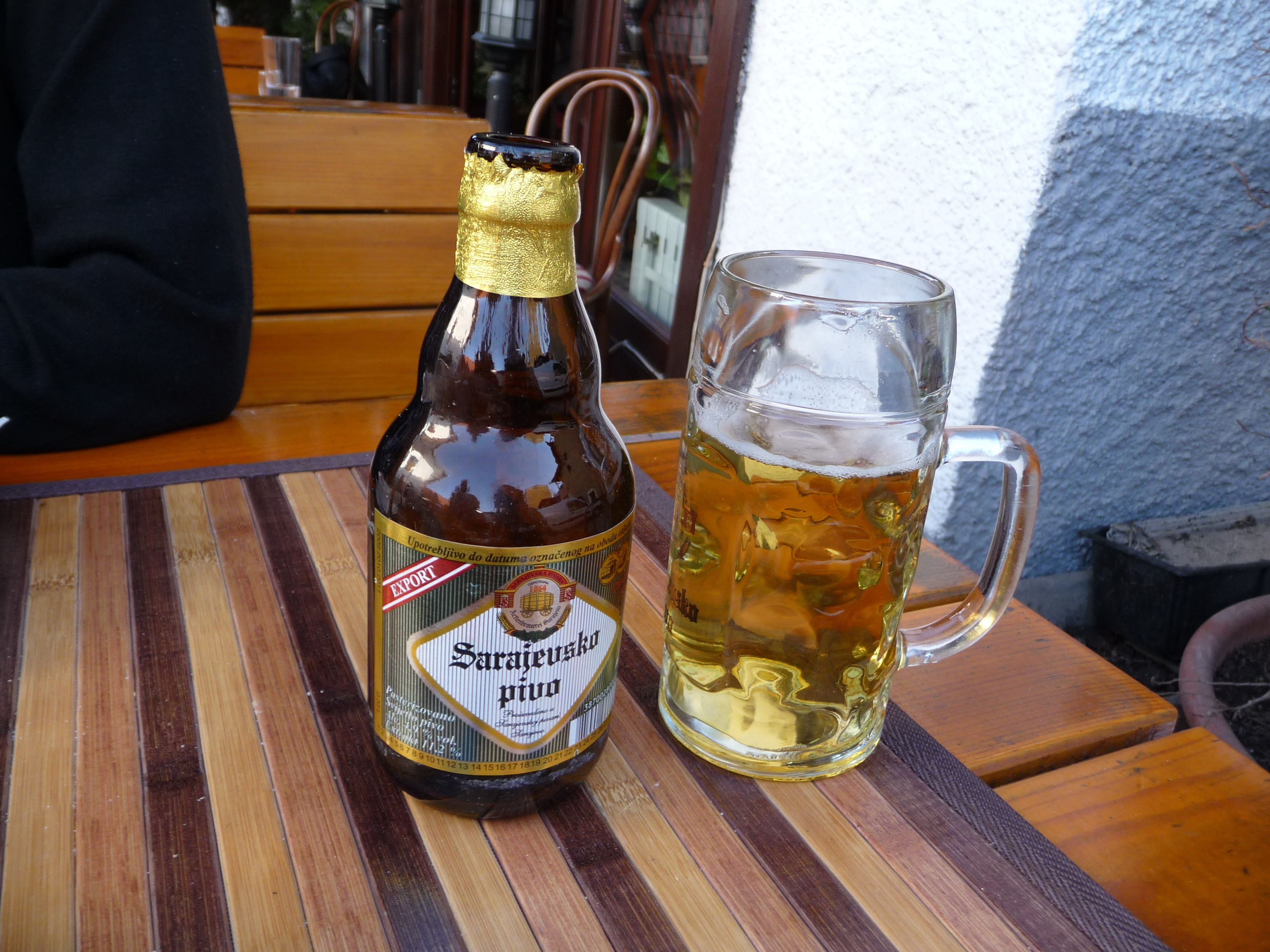 Sarajevsko Pivo, a Sarajevo beer make